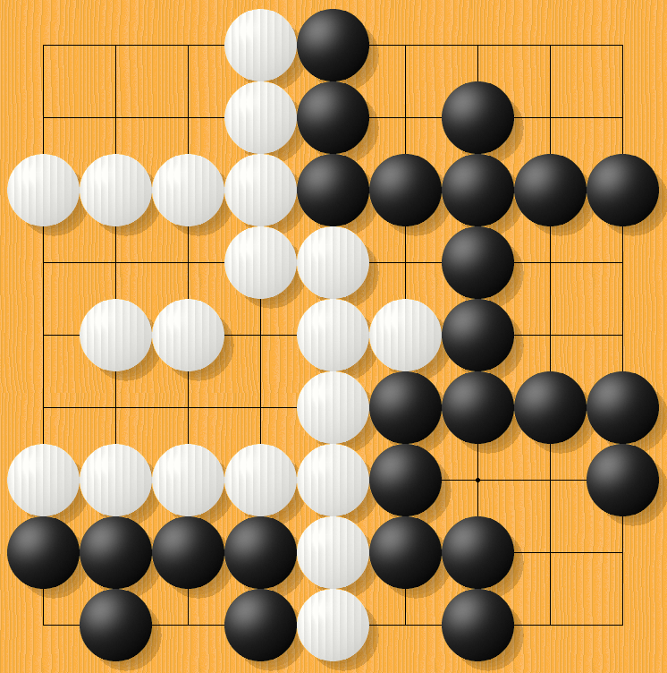 End game on 9x9 Go board